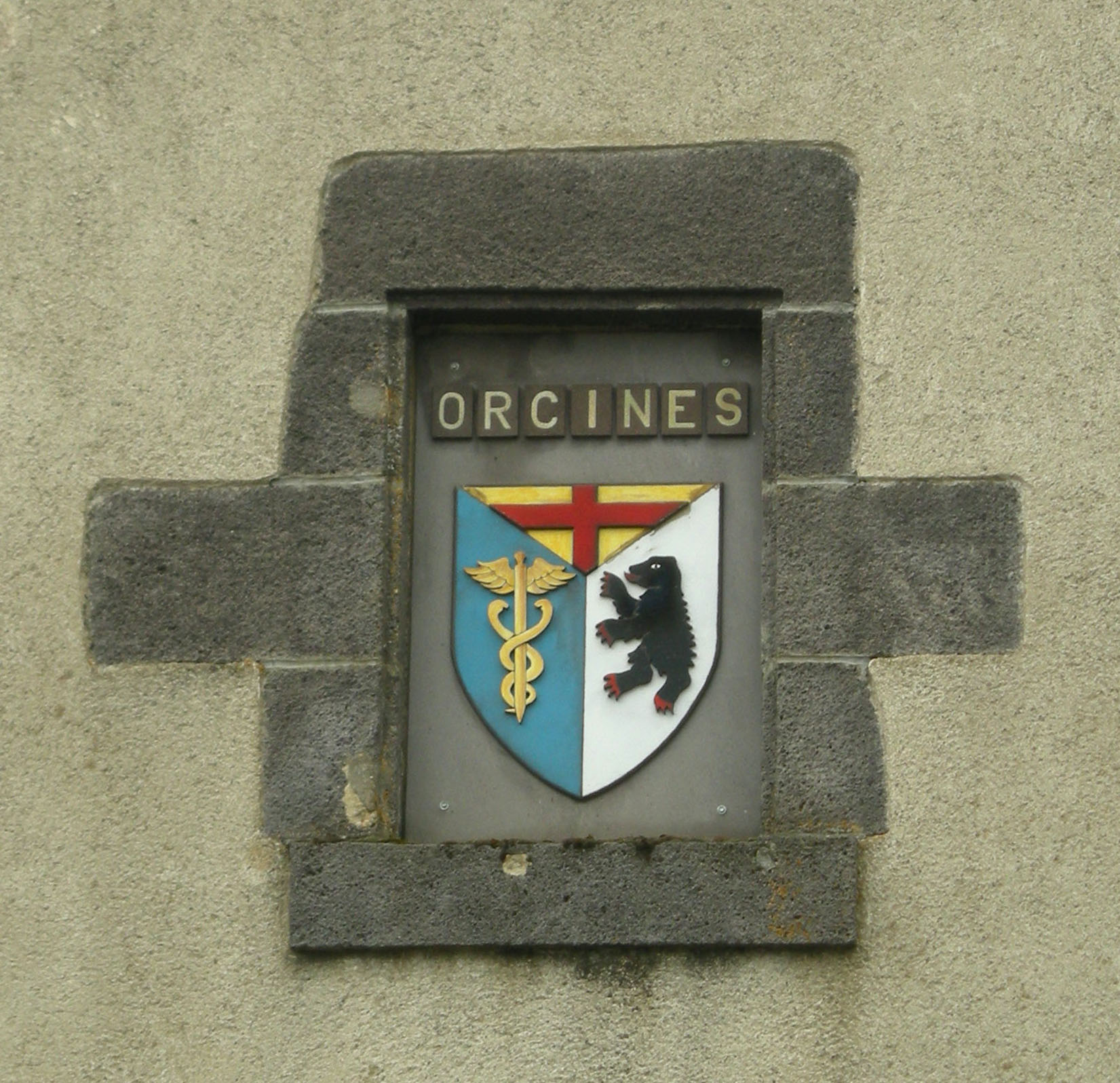 Coat of arms of Orcines (France)